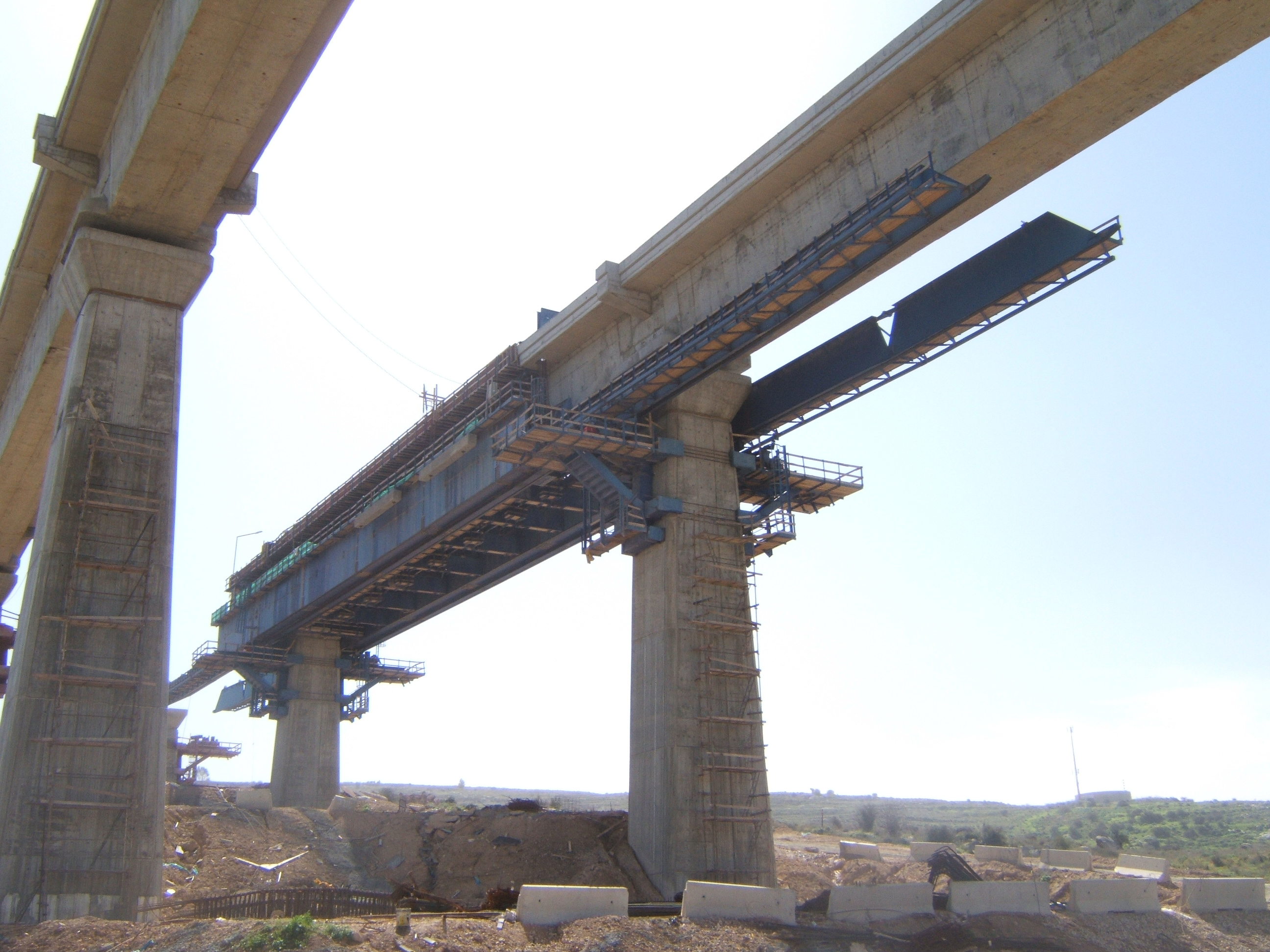 Bridge 6 on Modiin-Jerusalem new railway